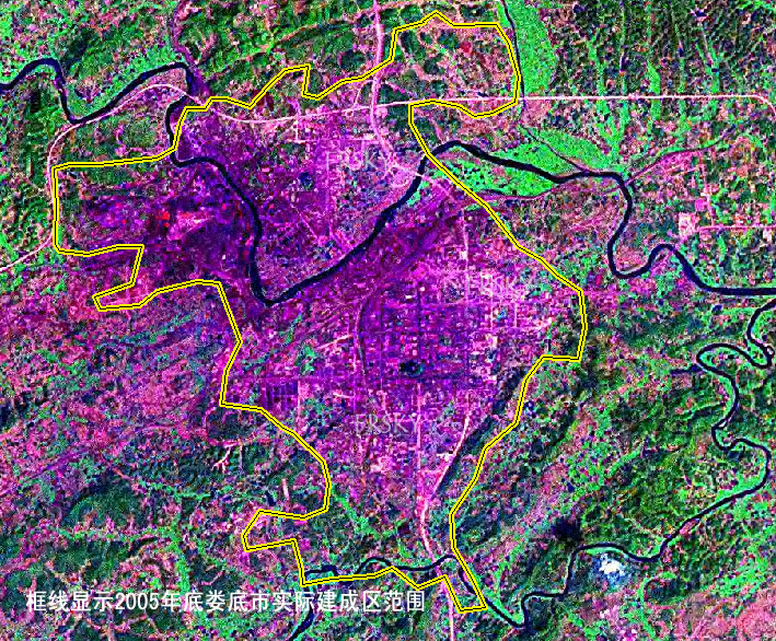 Loudi City(HN Prov.,CHN)Sat Img